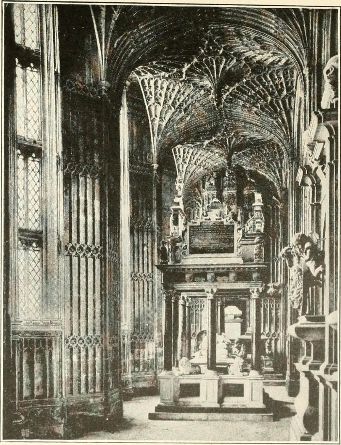 Title: Westminster abbey, its architecture, history and monuments Year: 1914 (1910s) Authors: Pratt, Helen Marshall Subjects: Westminster Abbey Great Britain -- Kings and rulers Publisher: New York : Duffield & company Text Appearing Before Image: terior of the chapter house andthe north ambulatory: it has Perpendicu-lar tracery of beautiful design and somefragments of its original glass. The Statuary at the east end includesfigures of St. Laurence, with a book rest-ing on a gridiron, the emblem of his mar-tyrdom: St. Armagillus, and St. Guthlac,who lived in the Fen Country. He wearsthe dress of a hermit with a priests chasu-ble and knights gauntlets, and a dragon isseen at his feet.* On the south side of the aisle the backsof the choir stalls are seen, those at thewest being still entire, while the othershave been cut in two and deprived of theirnorthern faces in order, as we have alreadyseen, to furnish fronts for additional stallsat the east. Three small Consecration Crosses arepainted on the north wall: one is at the *A history of this saint was written by one ofhis contemporaries named Felix. A parchment rollin the British Museum dating from the twelfth cen-tury, gives his life in a series of beautiful outlinedrawings. 548 Text Appearing After Image: cs^